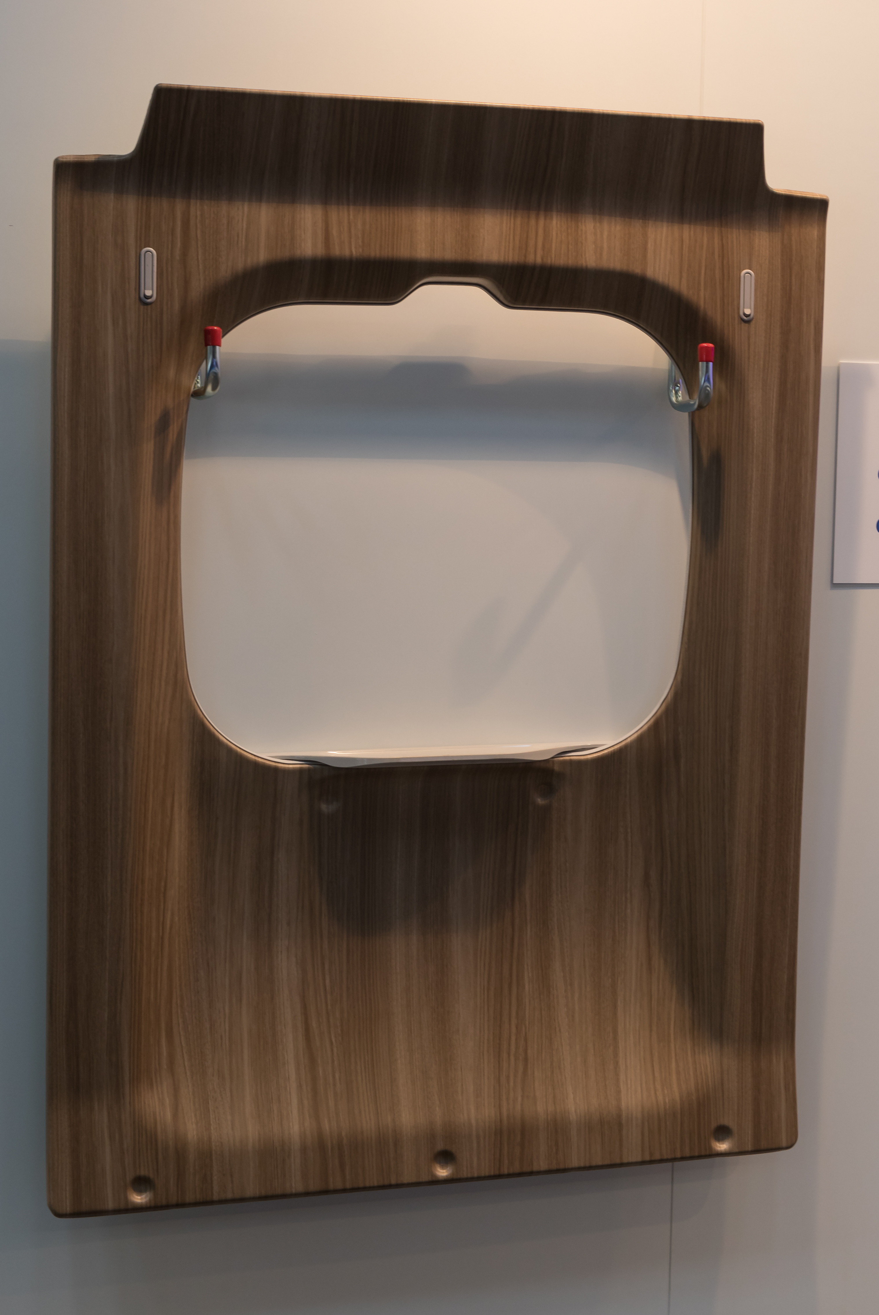 Passenger Experience Week 2018, Hamburg